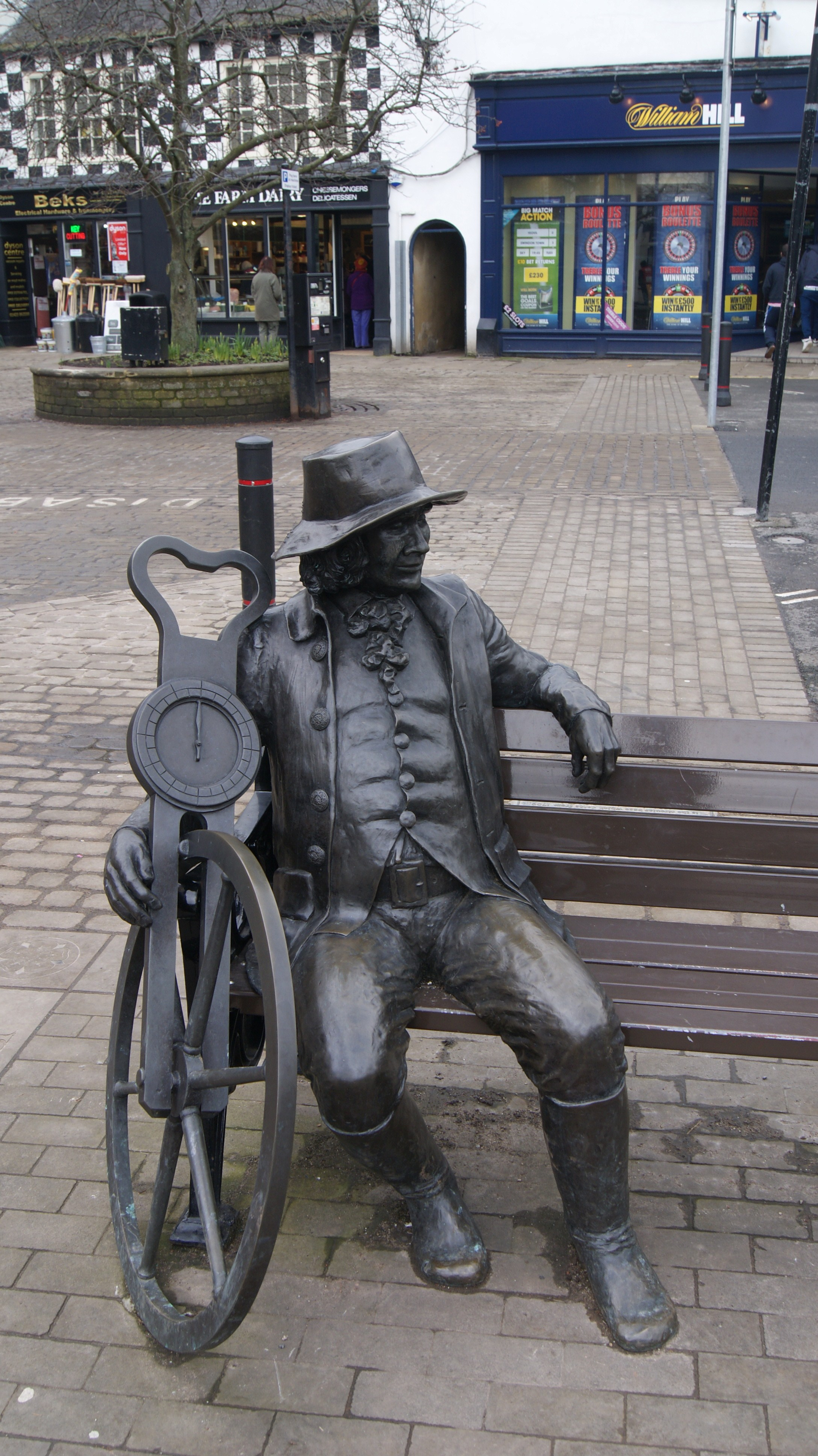 Blind Jack Metcalf of Knaresborough statue, Market Place, Knaresborough, North Yorkshire. Taken on the afternoon of Tuesday the 19th of March 2013.